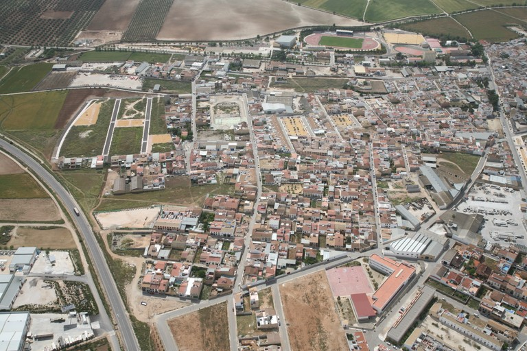 Air sight of Herrera (Sevilla)